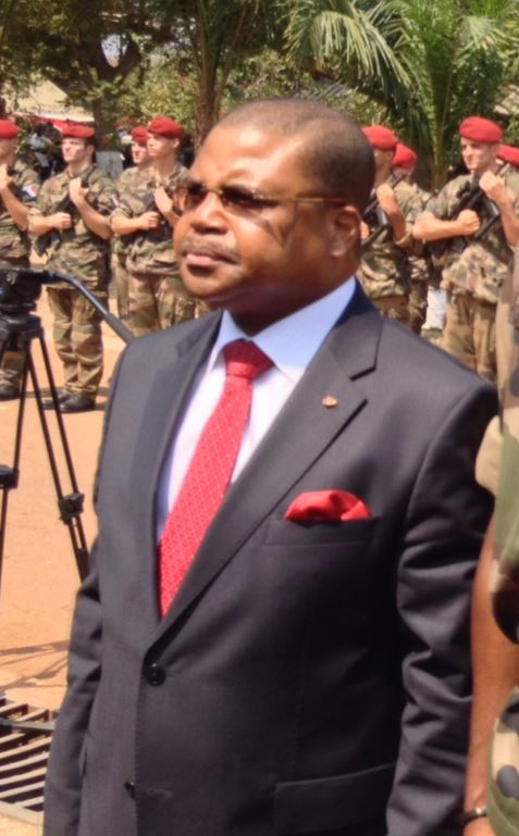 Cropped from the picture on the French VOA. Lancée officielle des forces de la Misca en presence du Premier Ministre Centrafricain Nicolas Thiangaye , à gauche